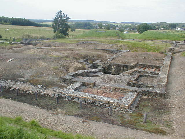 Ancient Roman villa in Habay (Belgium) : general view of the site. Walon: måjhon rominne a Habâ-la-Viè : foto di tote li pårteye del villa, disnaiveye e 2007.